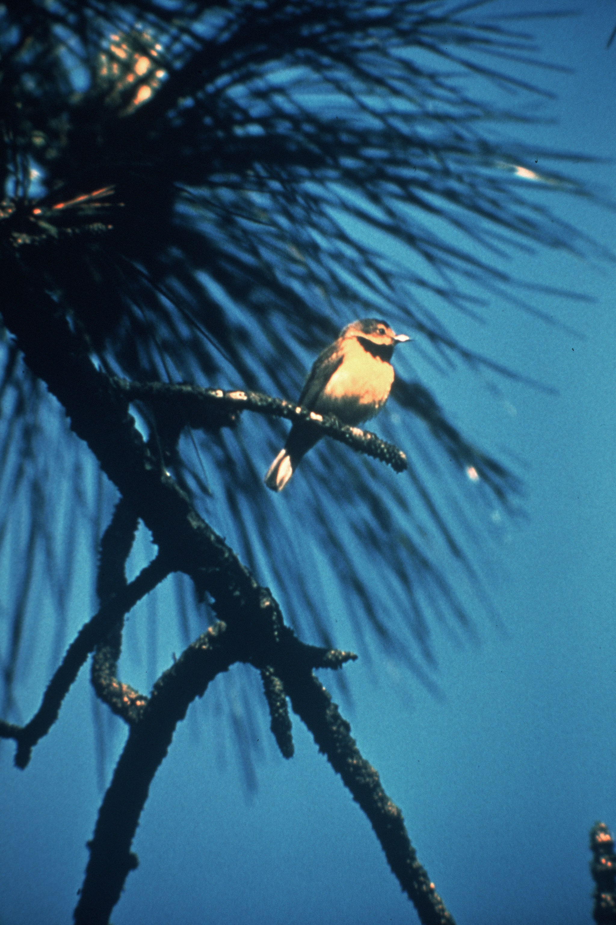 A male Bachman's Warbler, in one of the last photographs taken of this species